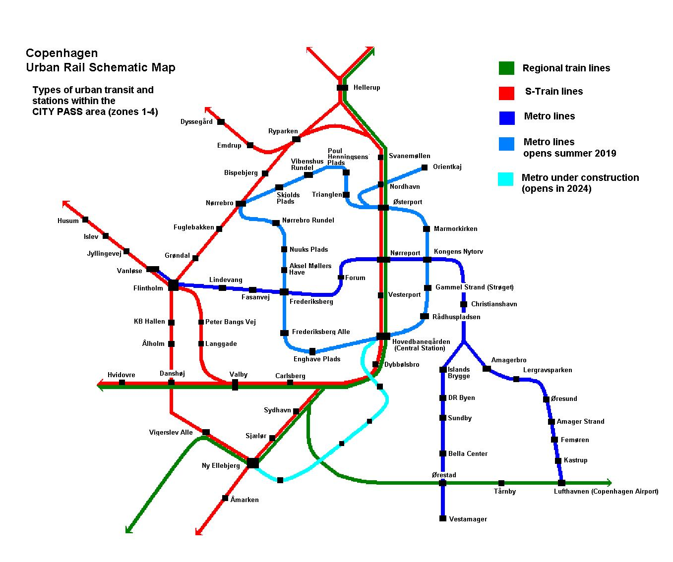 Schematic map of city rail networks in central Copenhagen. The "City Pass" area. S-trains, Metro and Regional trains (all with the same ticket system).